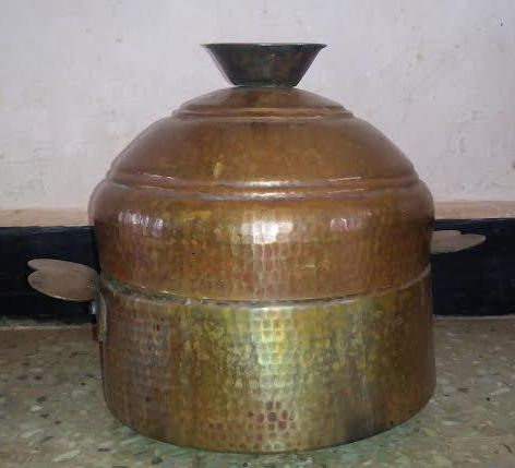 Indian antique peace